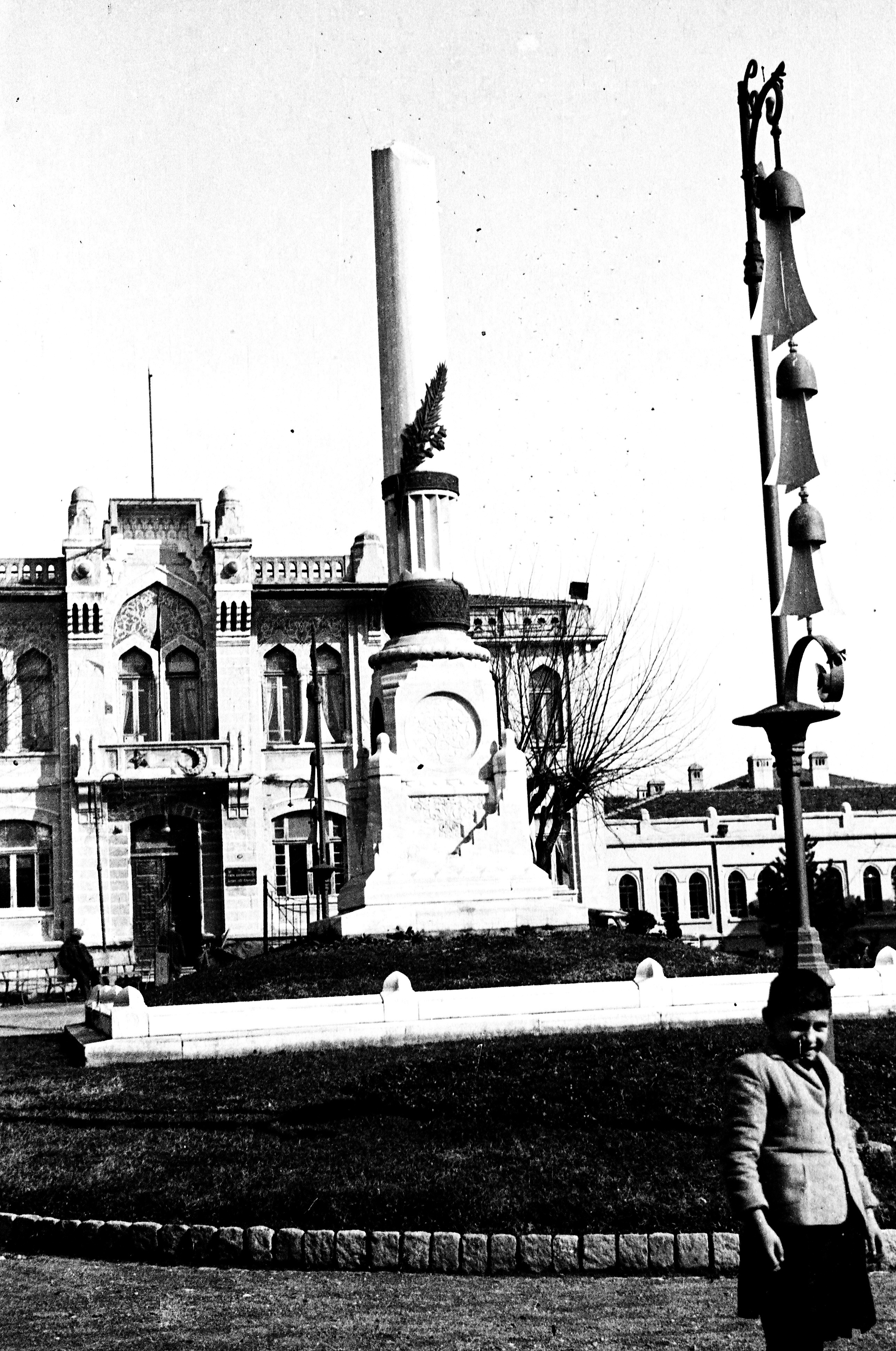 The Aviation Martyr’s Monument in Saraçhanebaşı, Fatih (1916), was designed by the architect Vedad Tek in memory of Fethi, Sadık and Nuri Bey. The three pilots died in 1914 while undertaking a flight from İstanbul to Cairo that was ordered by Enver Paşa to show the world that the Ottomans had an impressive airforce. The monument is formed in the shape of a broken column, on a marble base, to symbolize the uncompleted flight. Every year a rememberence ceremony is held in front of the monument. SALT Research, Söylemezoğlu Archive Fatih, Saraçhanebaşı’nda yer alan Hava Şehitleri Anıtı, mimar Vedad Tek tarafından tasarlandı. Türkiye havacılık tarihinin ilk şehitleri olan Fethi, Sadık ve Nuri beyleri anmak adına yapılan anıt 1916’da dikildi. 1914’te Enver Paşa’nın emriyle İstanbul’dan Kahire’ye göreve gönderilen bu üç pilot, uçuşu tamamlayamadan şehit olmuştu. Mermer kaide üstünde kırık bir sütun şeklindeki anıt, tamamlanamamış bu uçuşu temsil eder. Her yıl hava şehitlerini anmak üzere anıt önünde bir tören düzenlenir. SALT Araştırma, Söylemezoğlu Arşivi